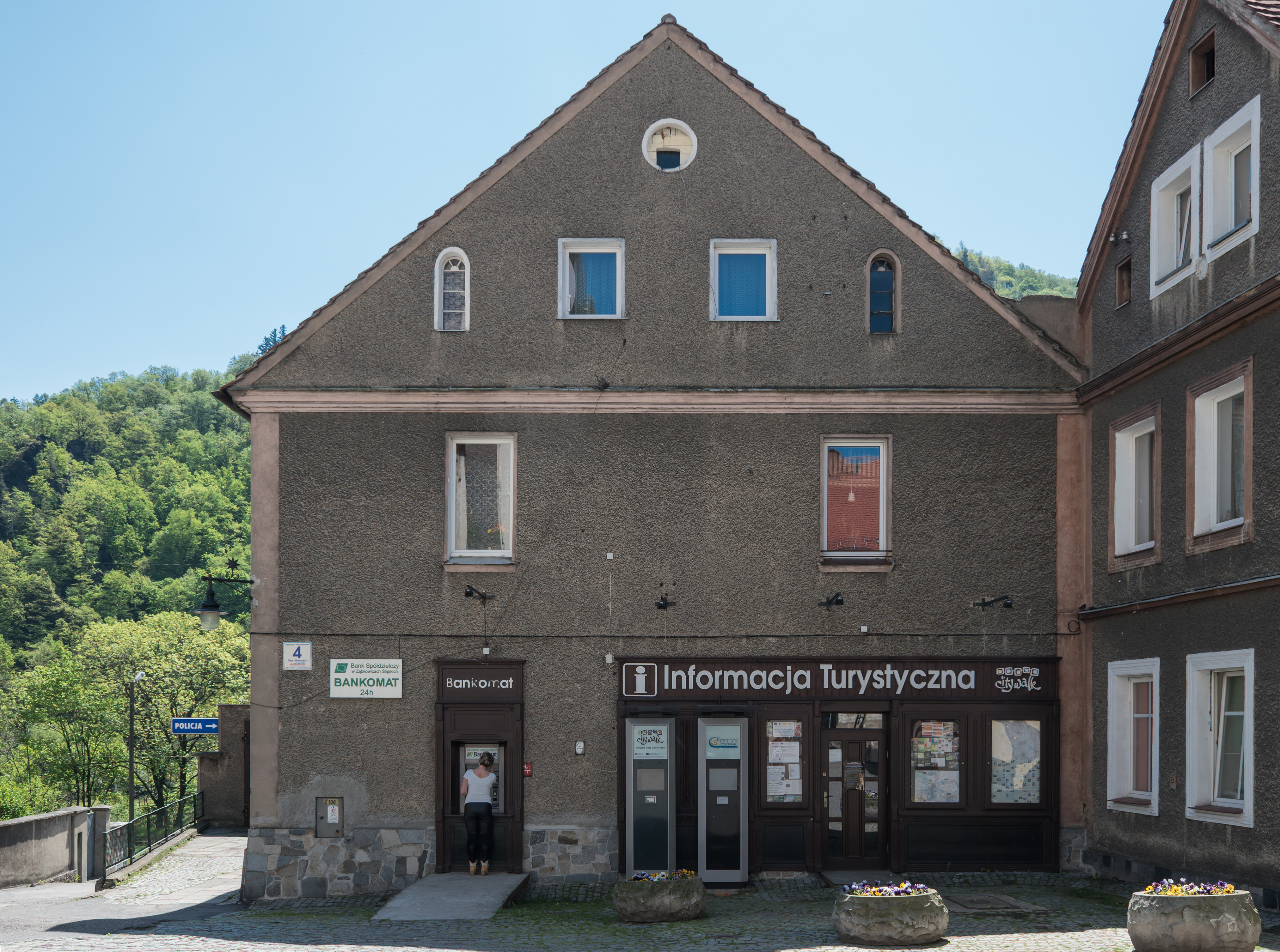 4 Wolności Square in Bardo